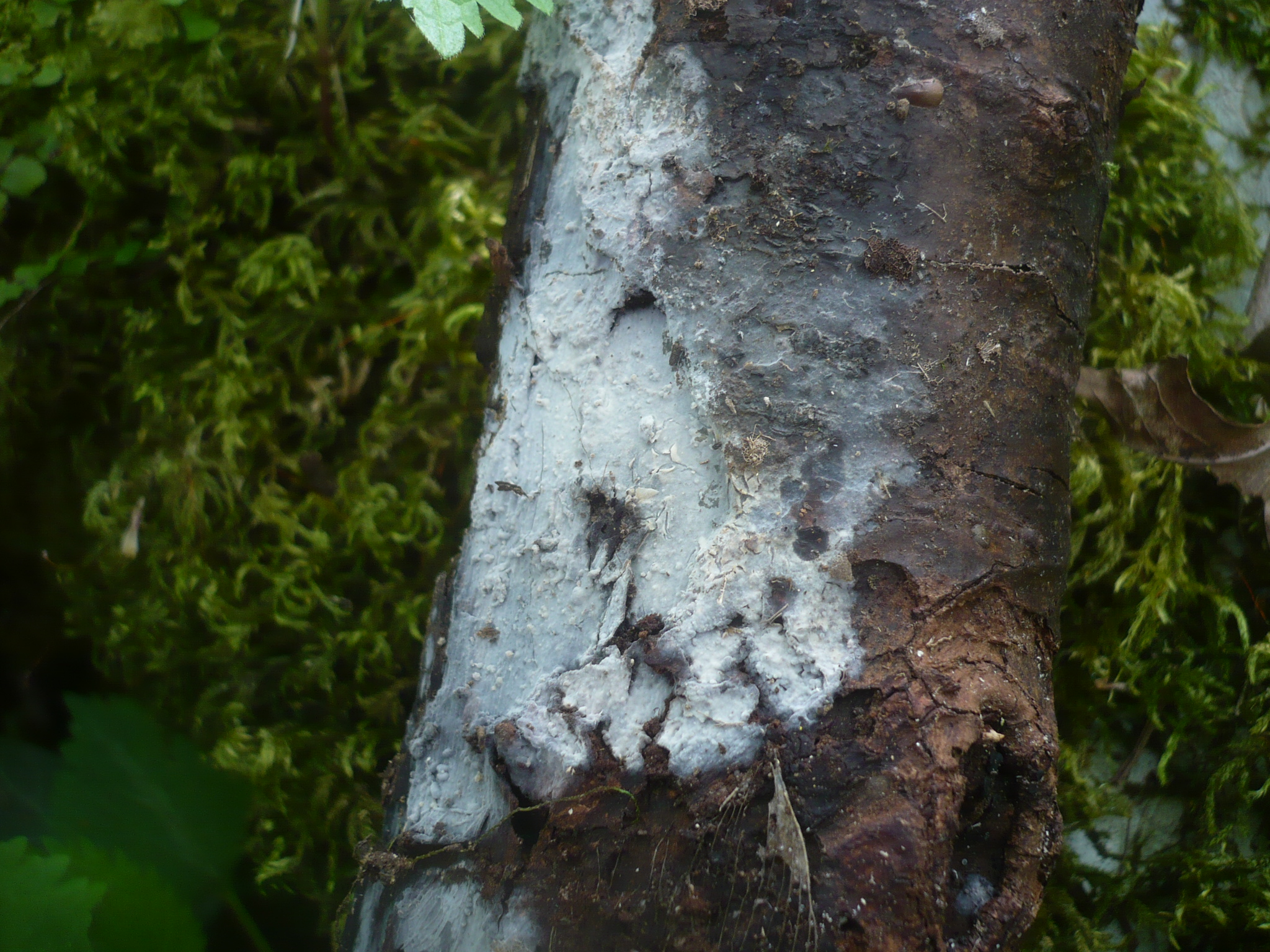 The corticioid fungus Xenasma pulverulentum (Litsch.) Donk. Photographed in Mirna-Auen, Ponte Porton, Istria, Croatia.